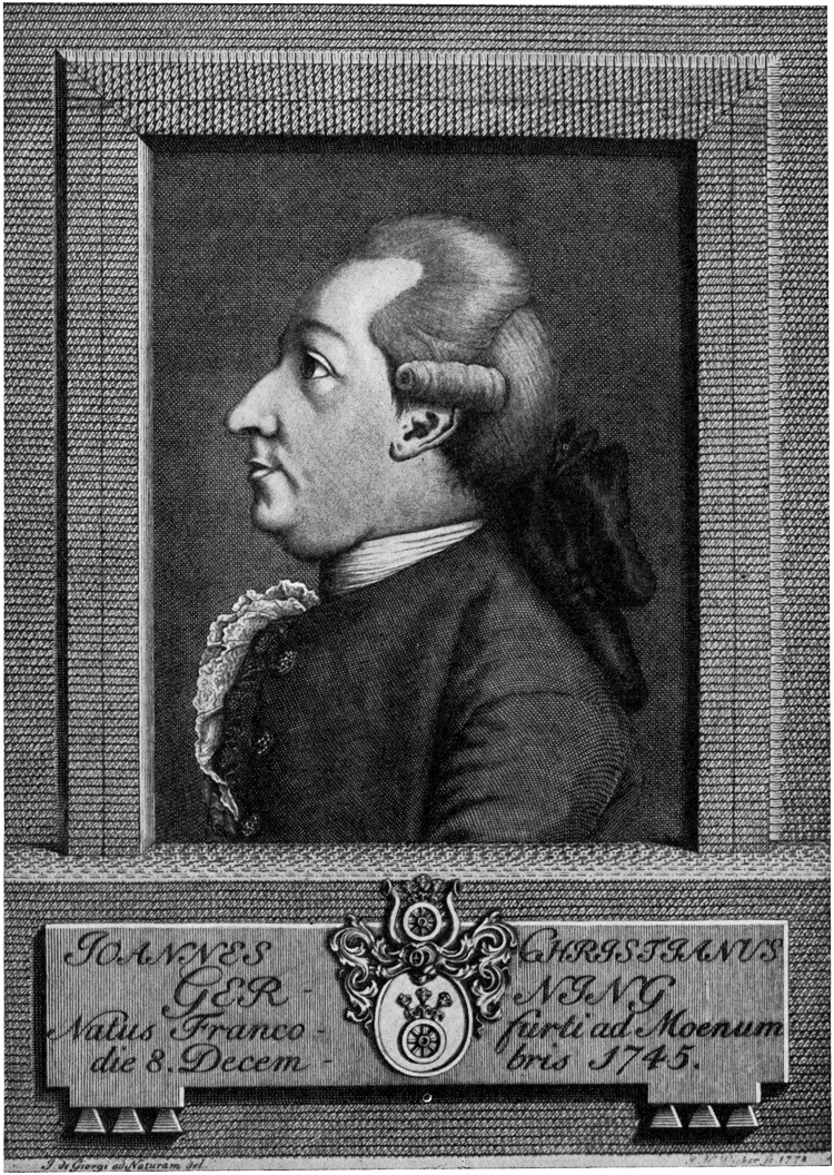 Frankfurt on the Main: Portrait of the art collector and patron Johann Christian Gerning (1745–1802)